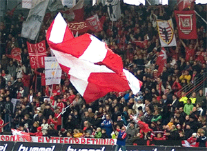 Shot at Vejle Stadium September 2008 at a football match between Vejle Boldklub and Brøndby IF.